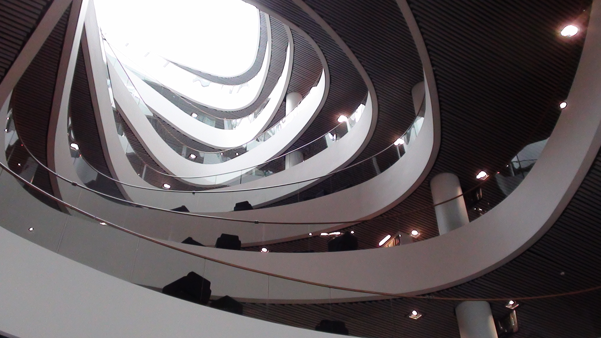 Interior atrium of Aberdeen University Library. The library's logo is based on this architectural view.